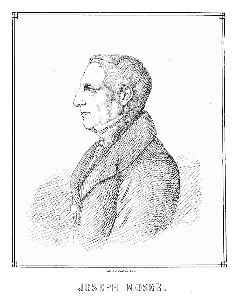 Joseph Moser (1779-1836), Austrian pharmacist